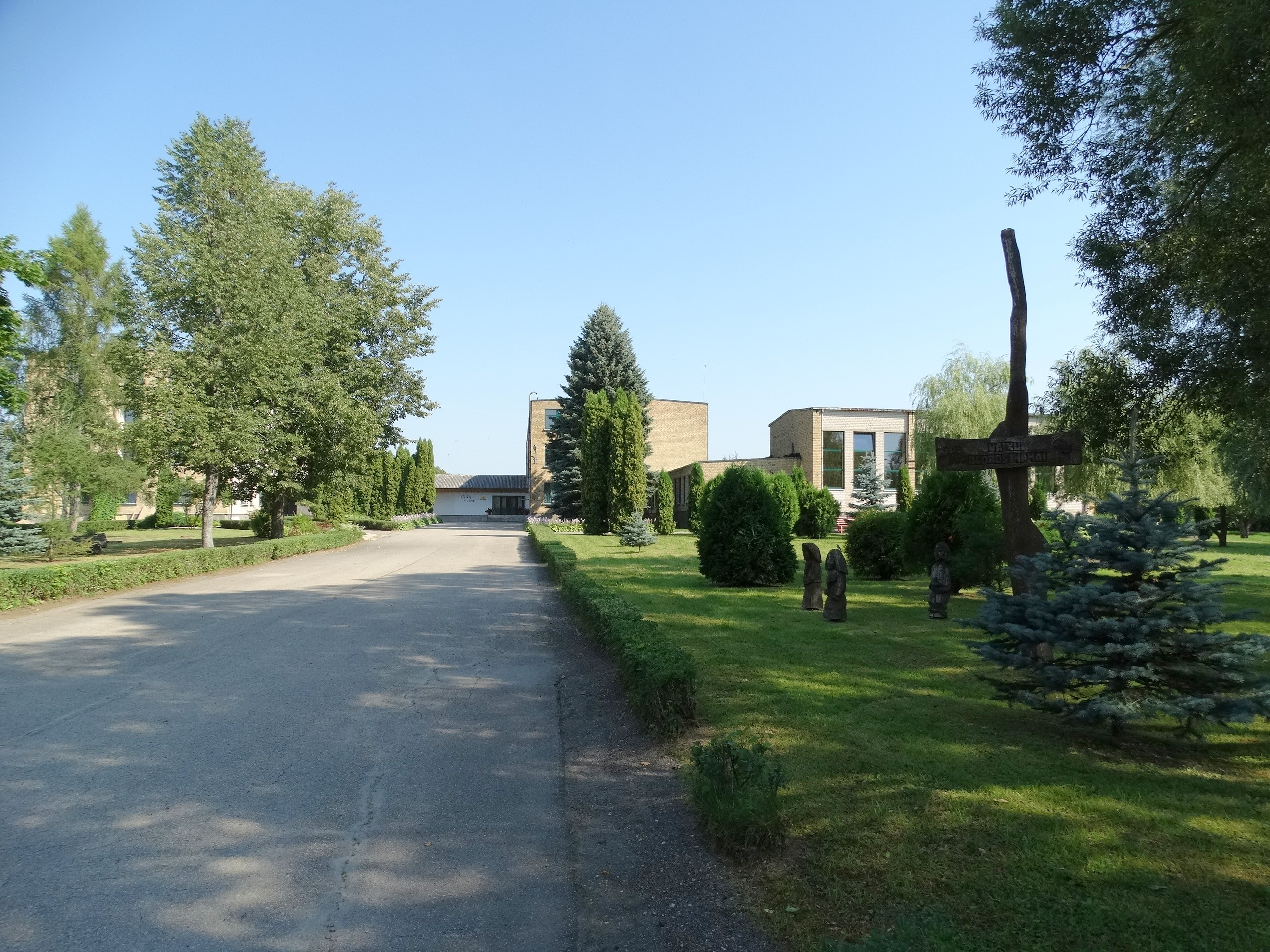 Child care home in Obeliai, Rokiškis district, Lithuania